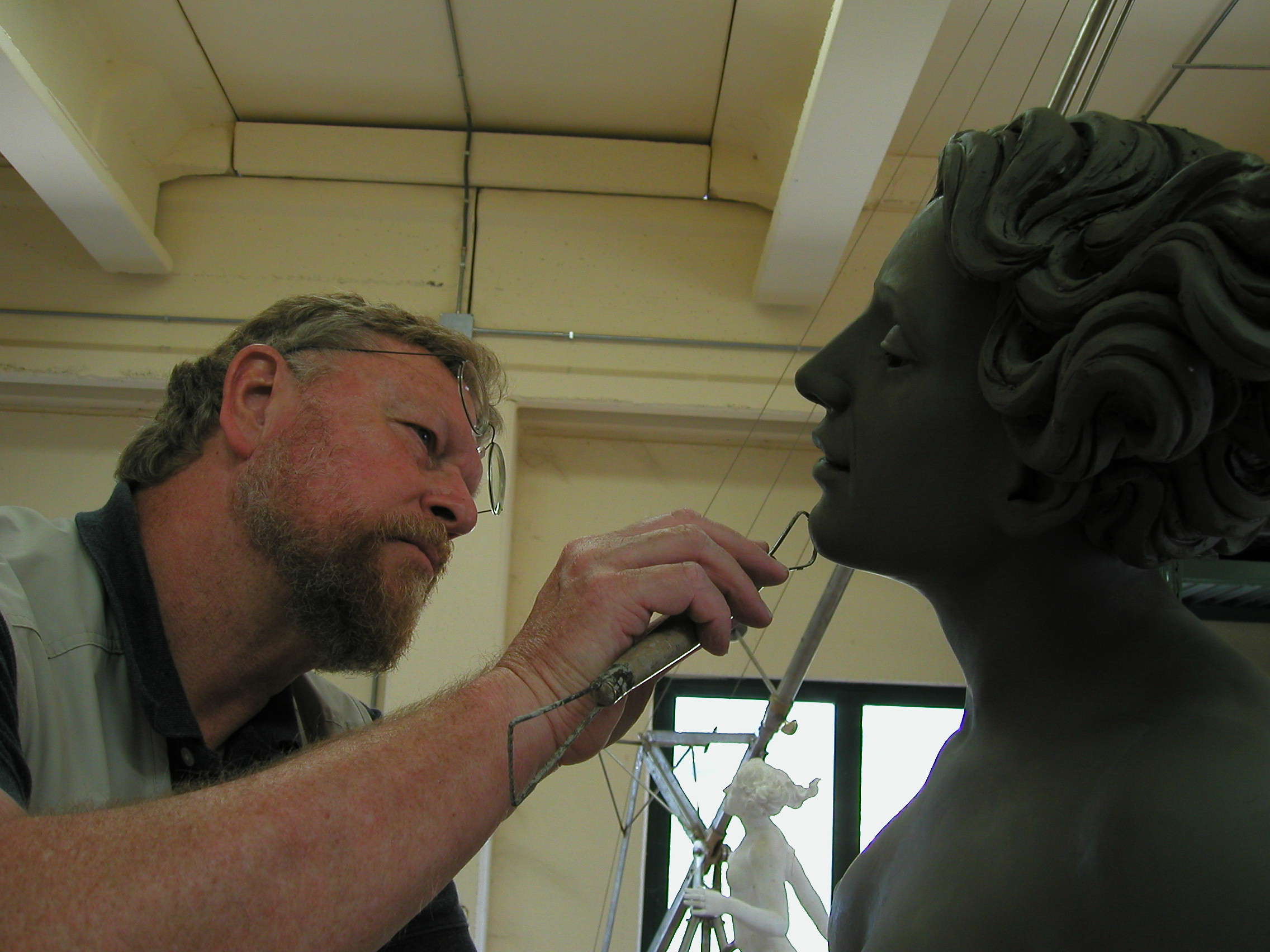 Artist Michael Parkes